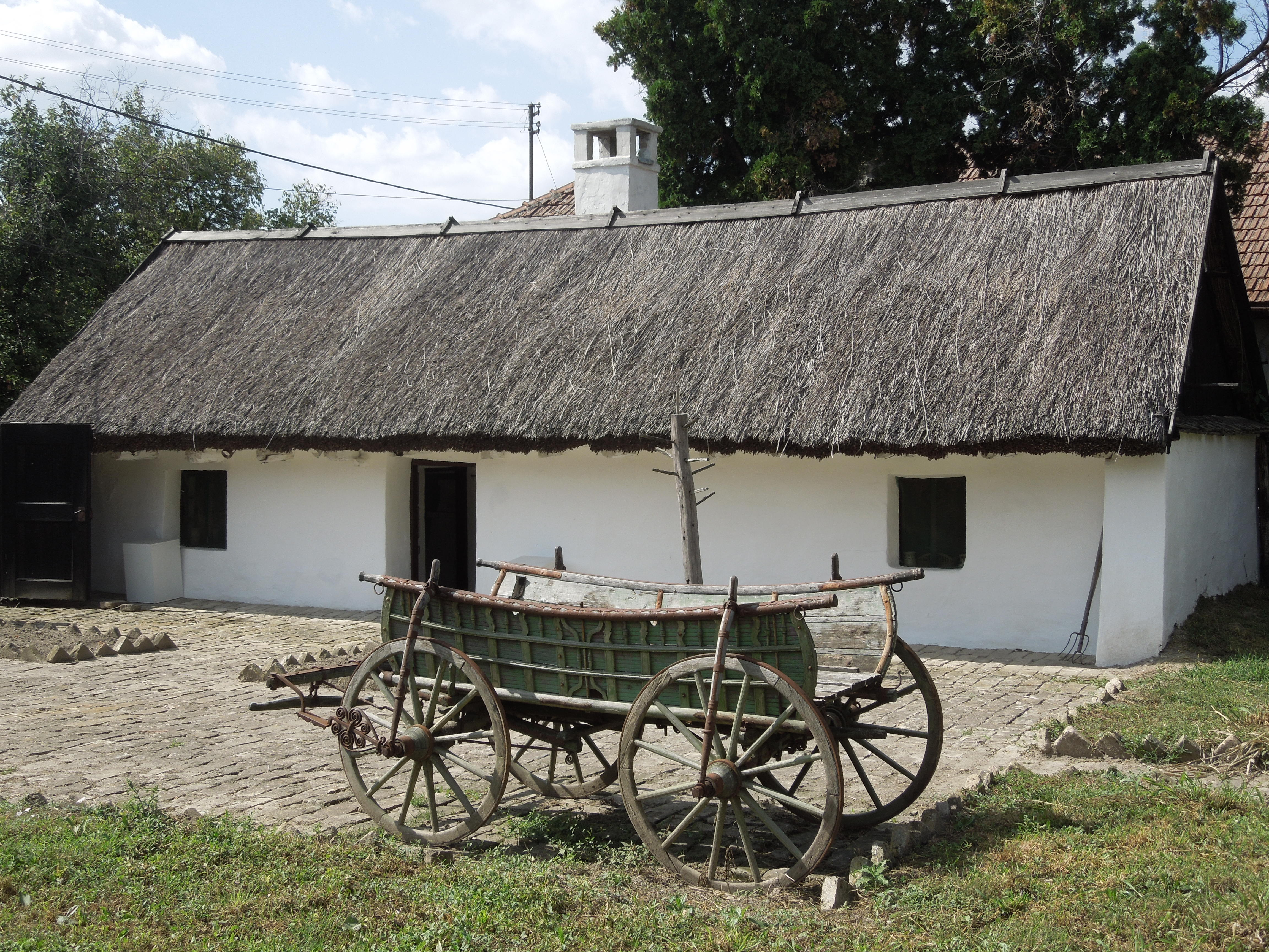 The "Oldest house in Bački Petrovac" built in 1799.